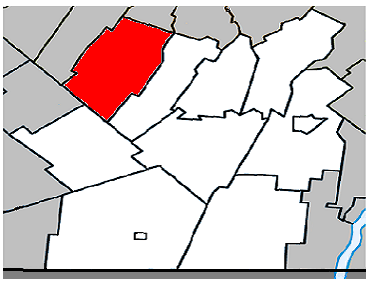 Location of Saint-Rémi, Quebec within Les Jardins-de-Napierville Regional County Municipality.